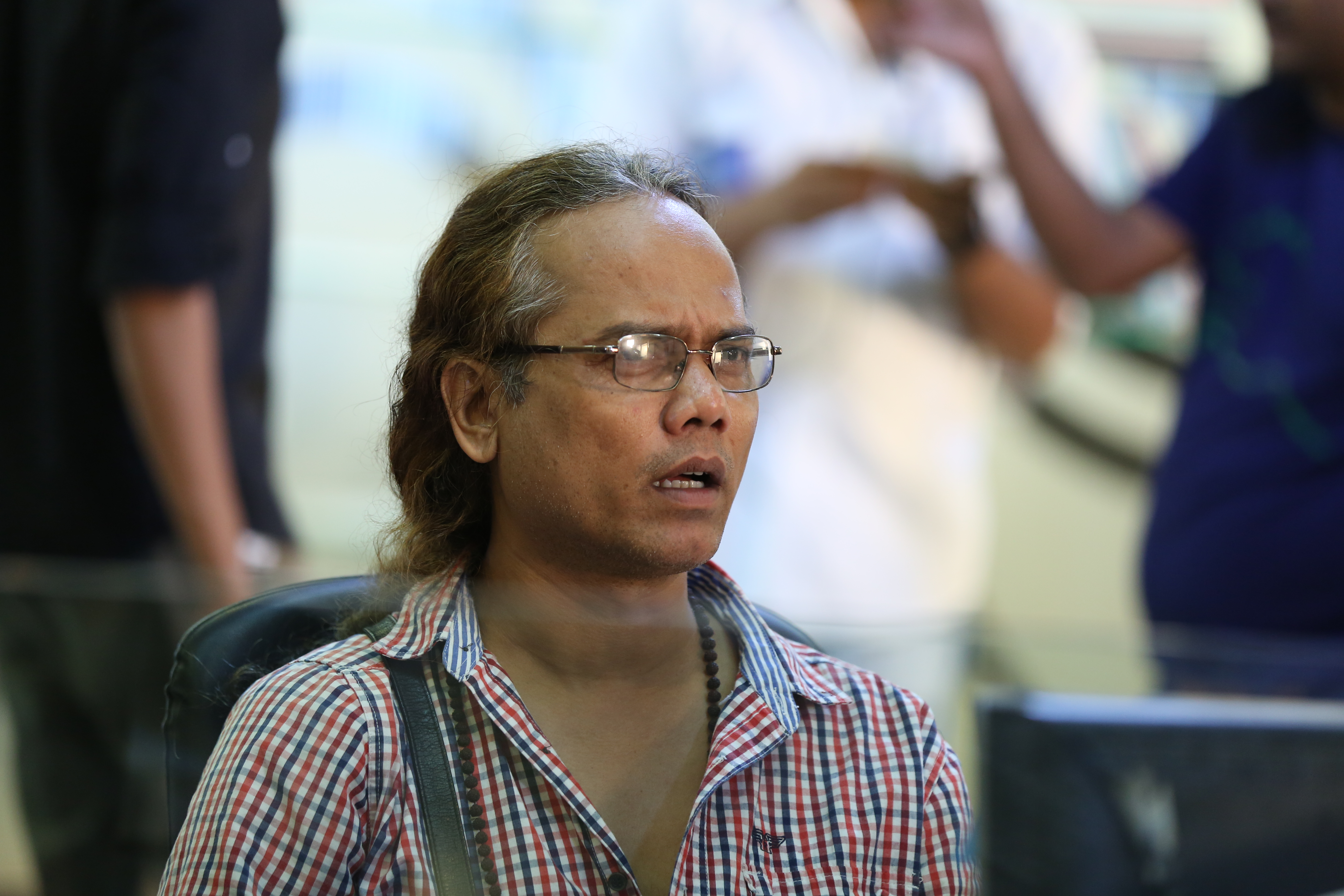 On shoots of movie Pratichhaya